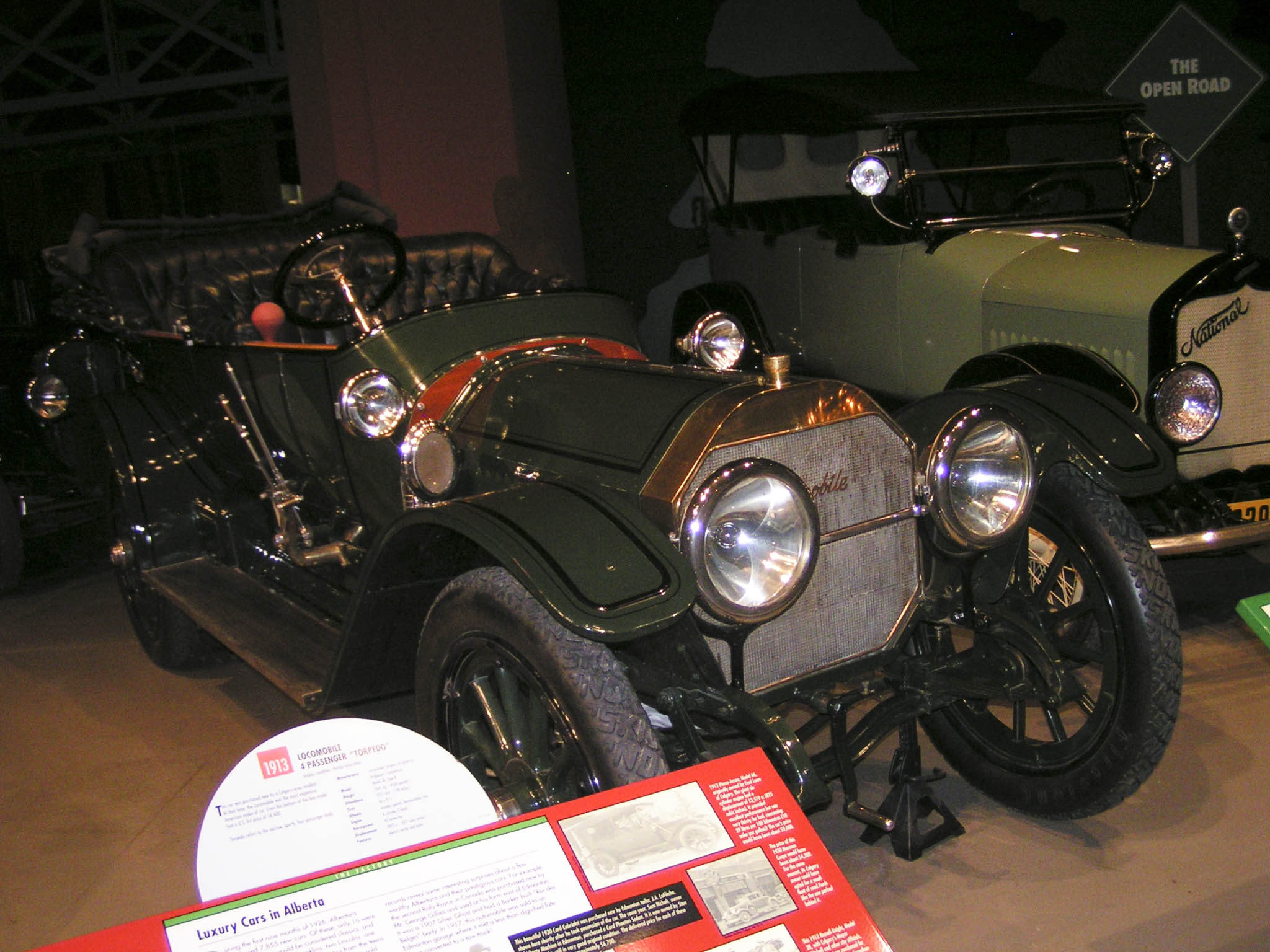 1913 Locomobile Torpedo automobile, on display at the Reynolds Alberta Museum in Wetaskiwin